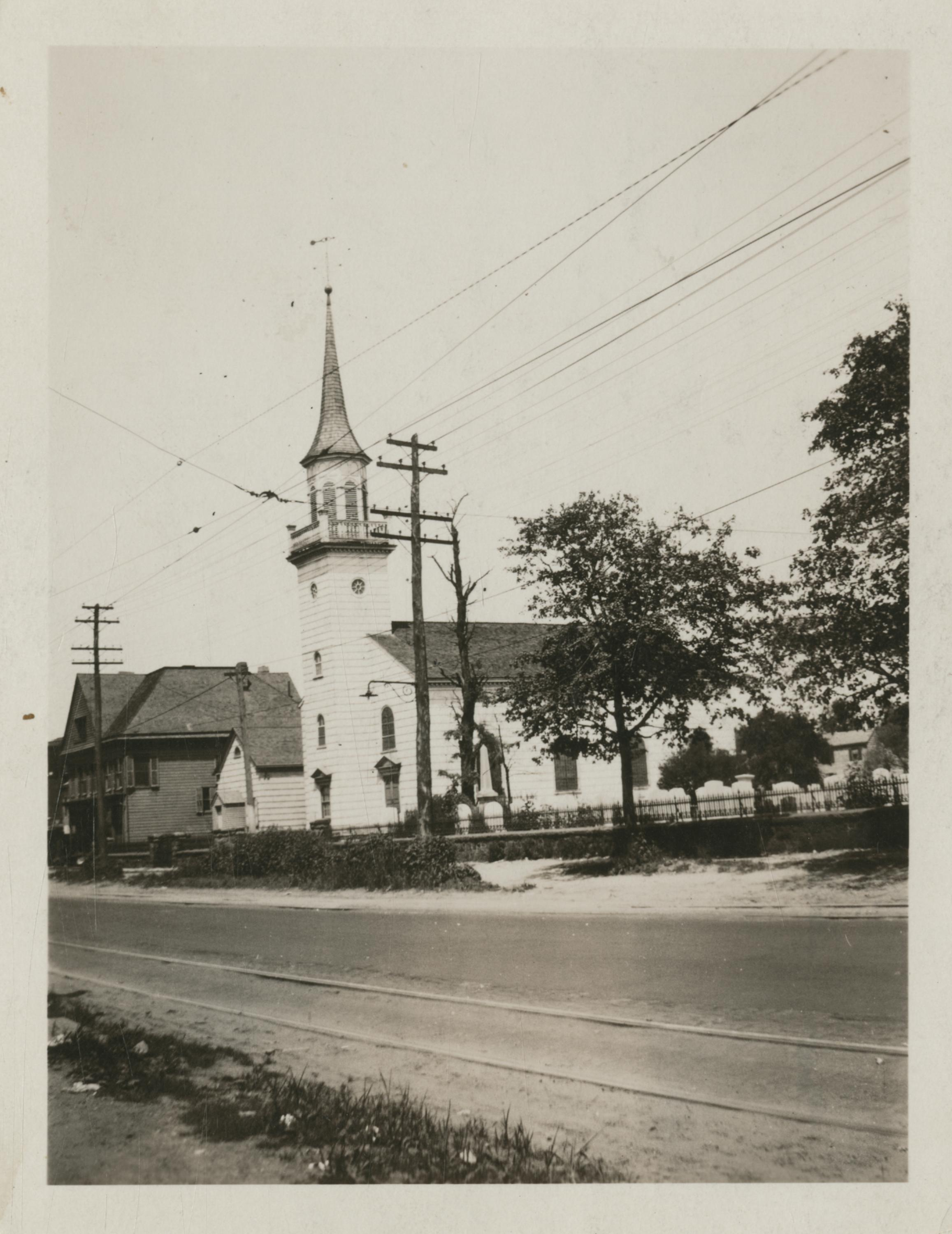 The old Newtown Presbyterian Church. The church burned on October 14, 1928, and was gone by May 1929. Image is faded.; hand written on back of print: Old Presbyterian church built 1787-91 The original Presb. Meeting house built 1671 stood on the opposite site of road nearly opposite the present Old church. Was occupied by Episcopal 1903-1708 First edifice on northside (site ofthe present old church) was built 1716 but was not fully completed ntil 1741 the site was donated by Jonathan Fish 1715. The first edifice on this site stood while Revolutionary War used as guardhouse and prison by British + after demolished Newtown 1922